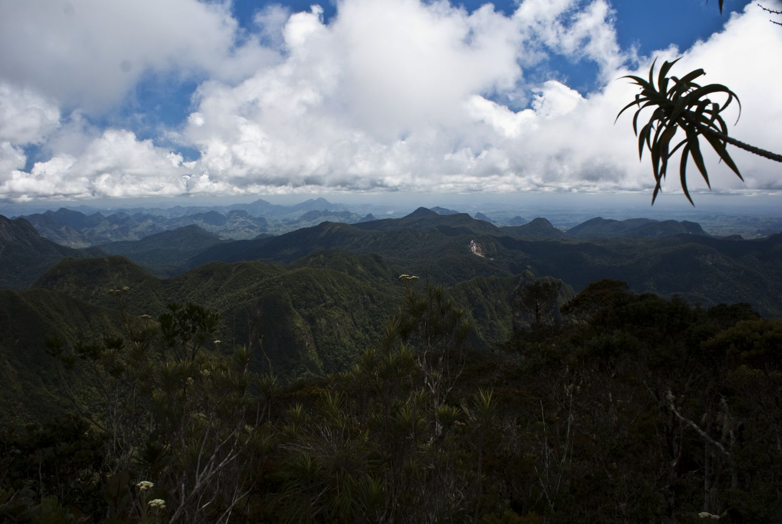 Back from the summit - High-Altitude Montane Cloudforest - Marojejy National Park - Madagascar